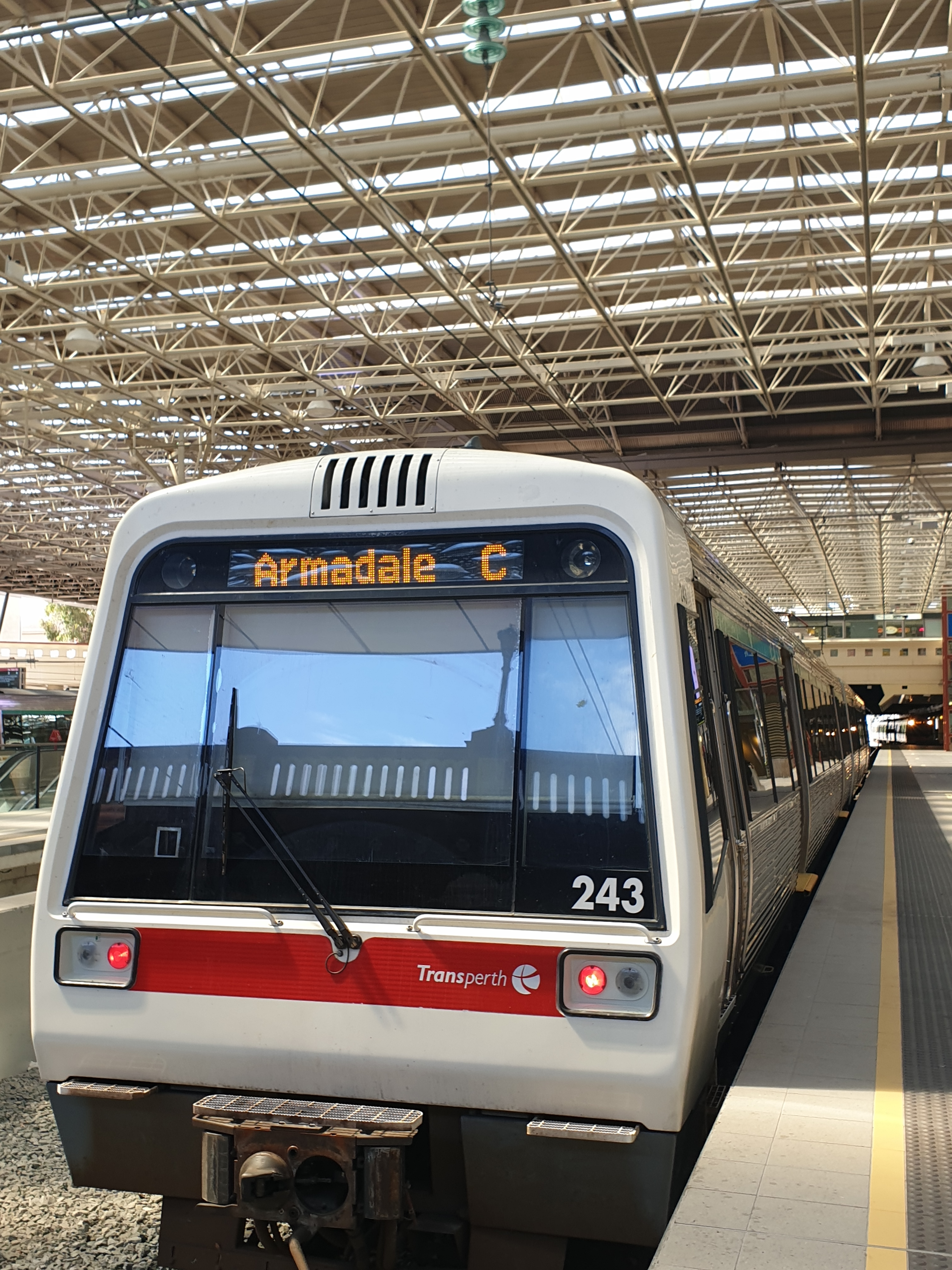 Transperth Train taken from Perth Train Station